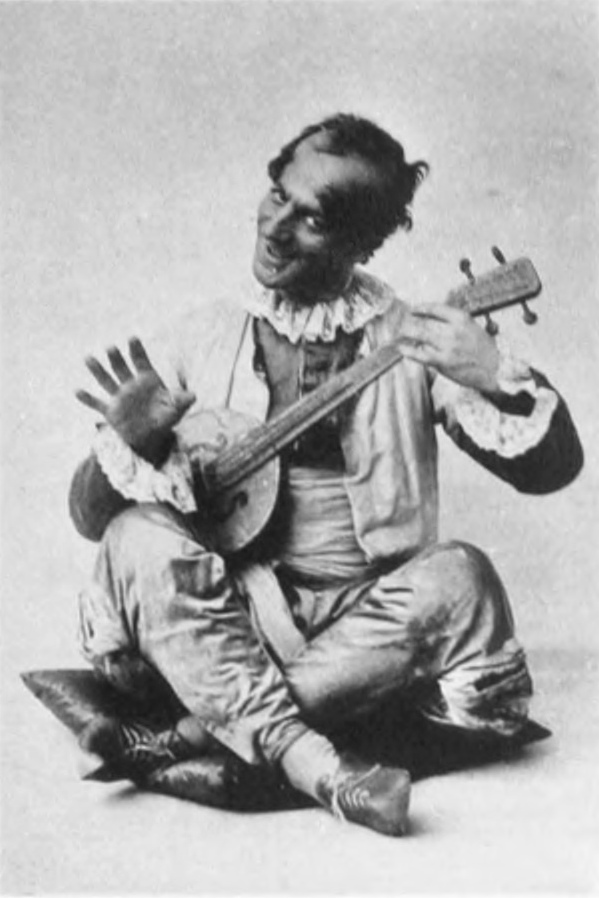 Francis Wilson as The Oolah in the musical of the same name.